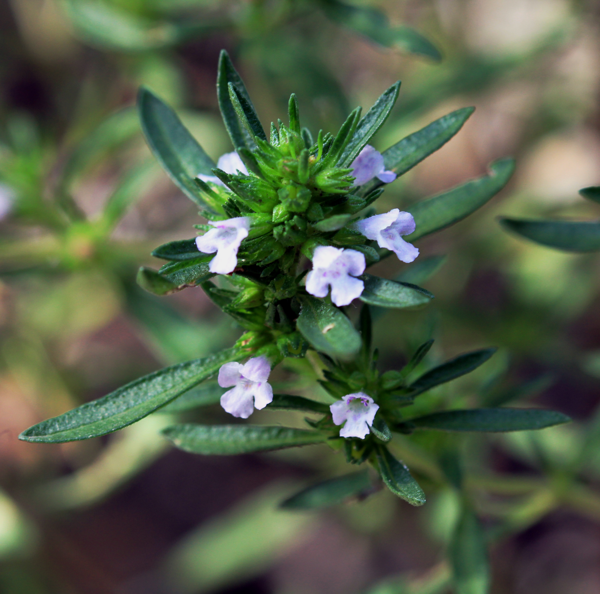 Flowers of plant Summer savory, (Satureja hortensis) from the Botanical Gardens of Charles University, Prague, Czech Republic